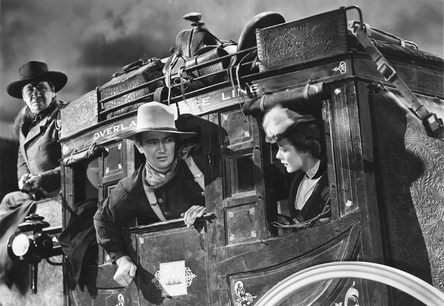 Promotional still from the 1939 film Stagecoach, published on the front cover of National Board of Review Magazine